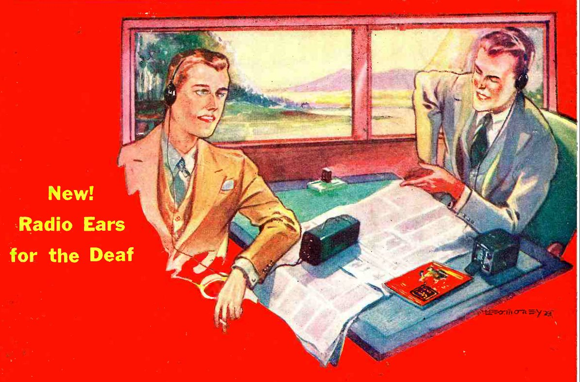 Illustration on the cover of an electronics magazine of use of the first mass market vacuum tube hearing aids in 1933. Amplifying hearing aids, made possible by the invention of the triode vacuum tube by Lee De Forest in 1906, had just come on the market a few years before, and were a great improvement over previous crude electric hearing aids that used the amplifying ability of a carbon microphone. The hearing aid consisted of a box about the size of a loaf of bread, with a built-in microphone, that the user directed toward the speaking person, with a plug-in headphone. The illustration shows two hearing-impaired men using the hearing aids on a train. Alterations to image: Cropped out extraneous text on the cover.